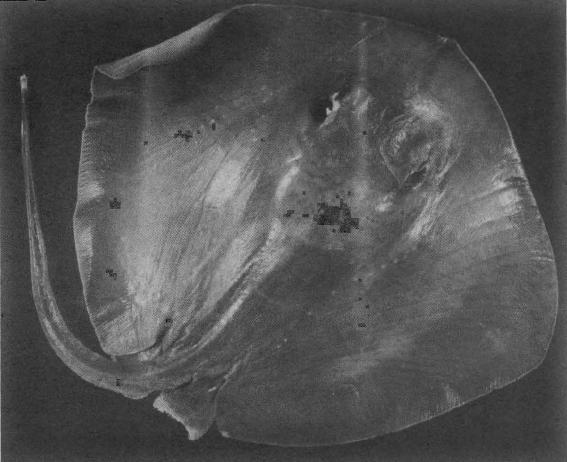 Pitted stingray (Dasyatis matsubarai).